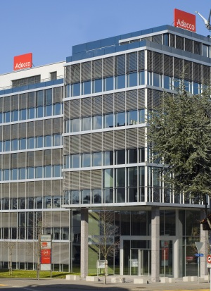 The head office of Adecco